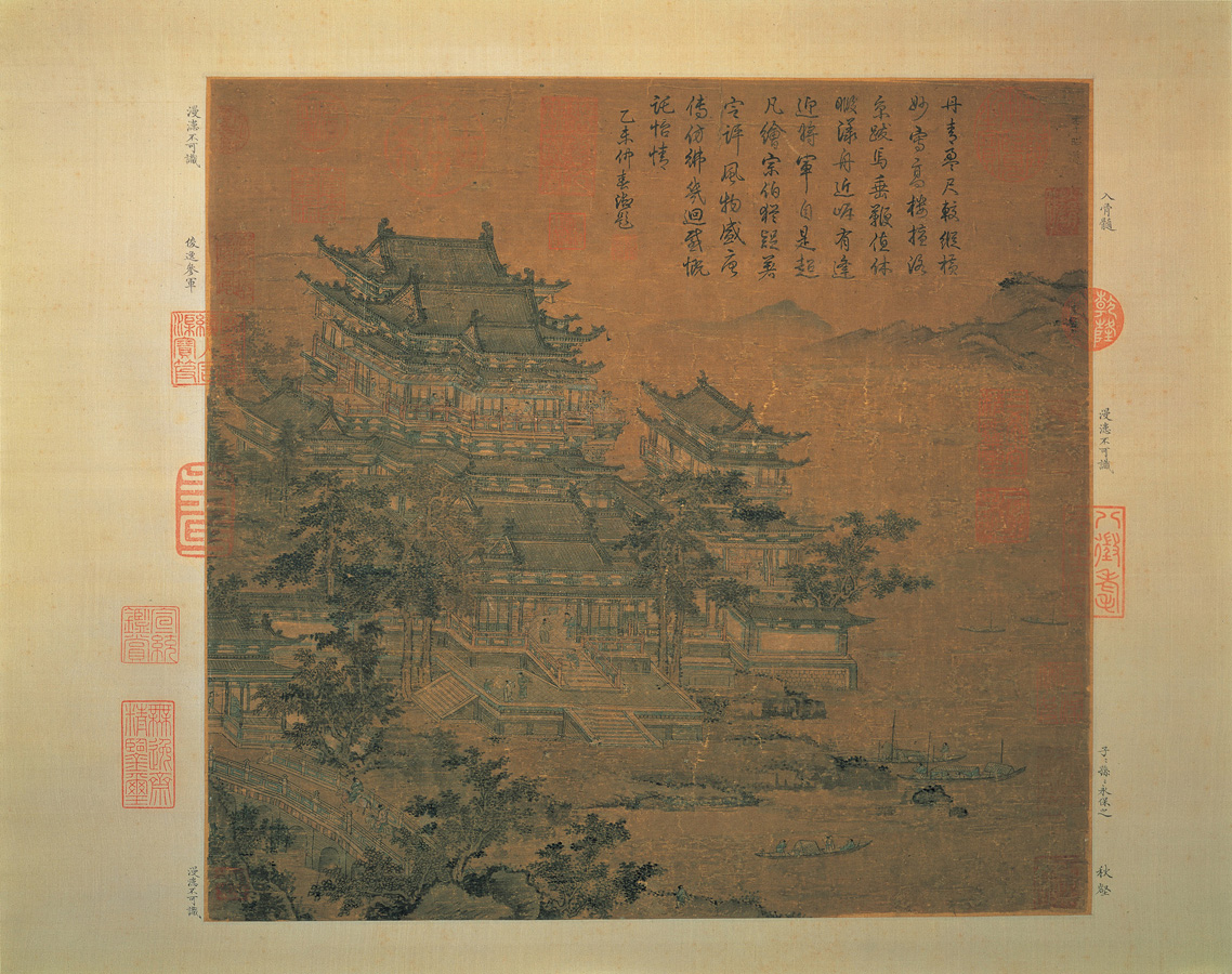 Attributed to Li Zhaodao The Loyang Tower 37.5 x 39.7 cm NPM Taipei